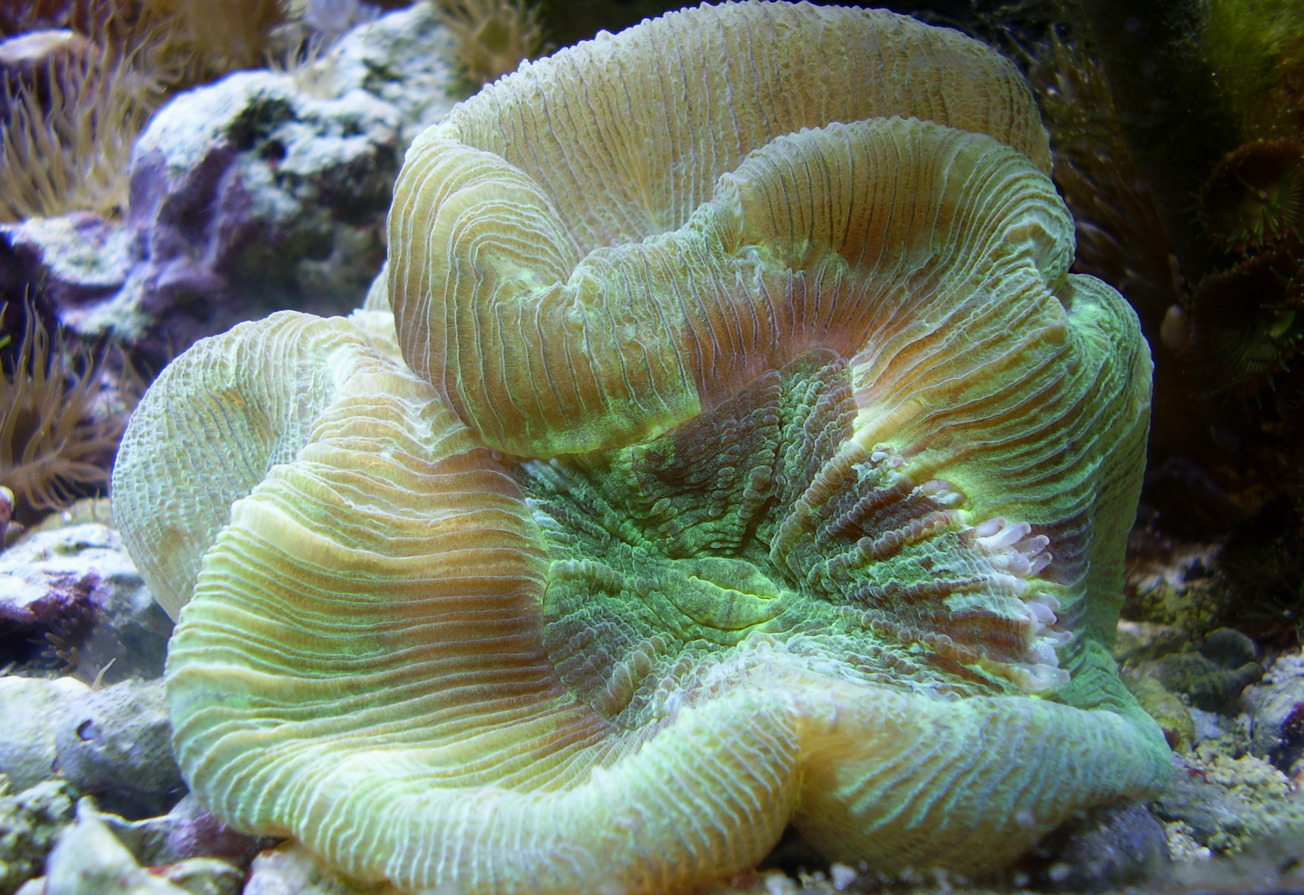 An open brain-coral (Trachyphyllia) in aquarium